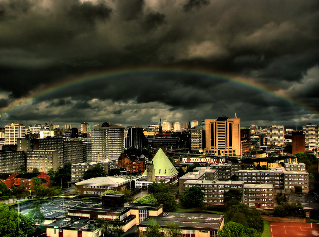 Rainbow over downtown as seen from my office at SkyPark a few minutes ago, Finnieston area, Glasgow. Scotland Contrast has been tweaked, but the rainbow was exactly like that, well, even more noticeable. Fixed double-glazed-tinted windows have added some reflections on one hand and maybe polarised the final pic on the other hand. Large on Black Reached Explore #100 on 06/05/07